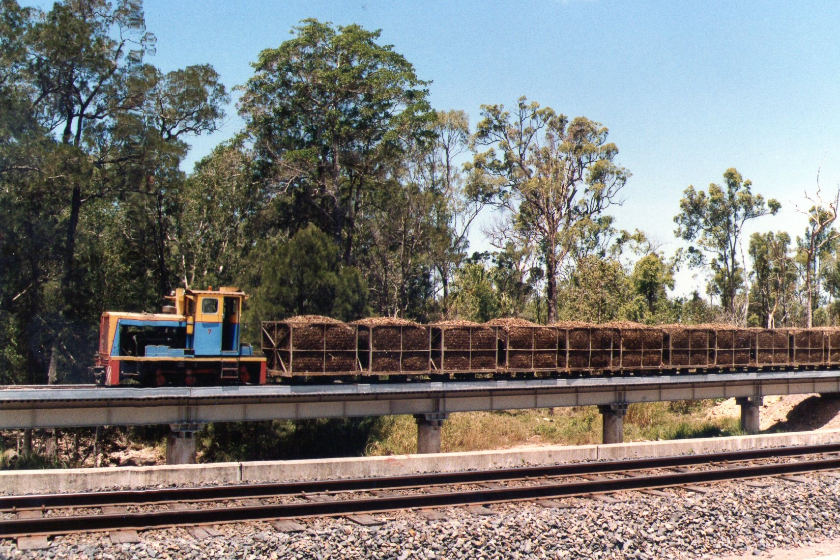 A 610mm gauge sugar cane train runs parallel to the NCL near Mackay